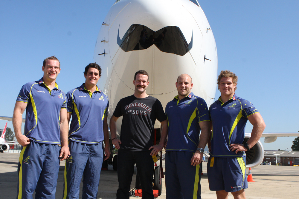 The Qantas Wallabies unveil a Boeing 737-800 aircraft sporting a giant moustache which will fly around the country for the month of November raising awareness of prostate cancer and men's mental health.